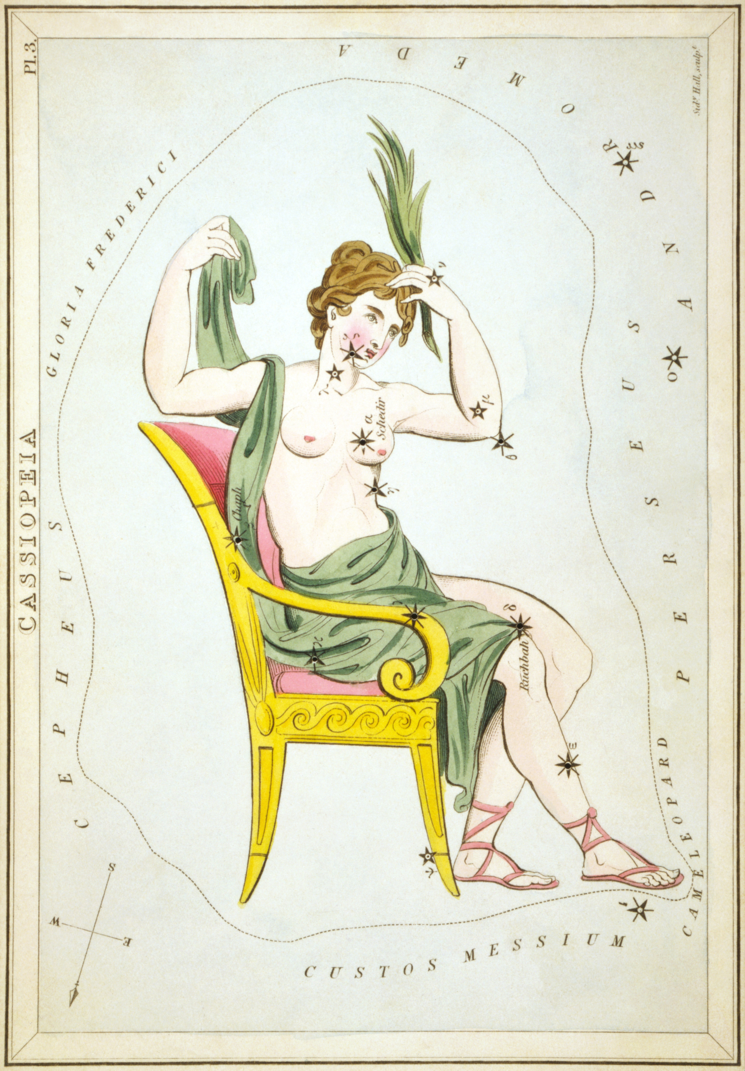 "Cassiopeia", plate 3 in Urania's Mirror, a set of celestial cards accompanied by A familiar treatise on astronomy ... by Jehoshaphat Aspin. London. Astronomical chart showing Perseus holding bloody sword and the severed head of Medusa forming the constellation. 1 print on layered paper board : etching, hand-colored.